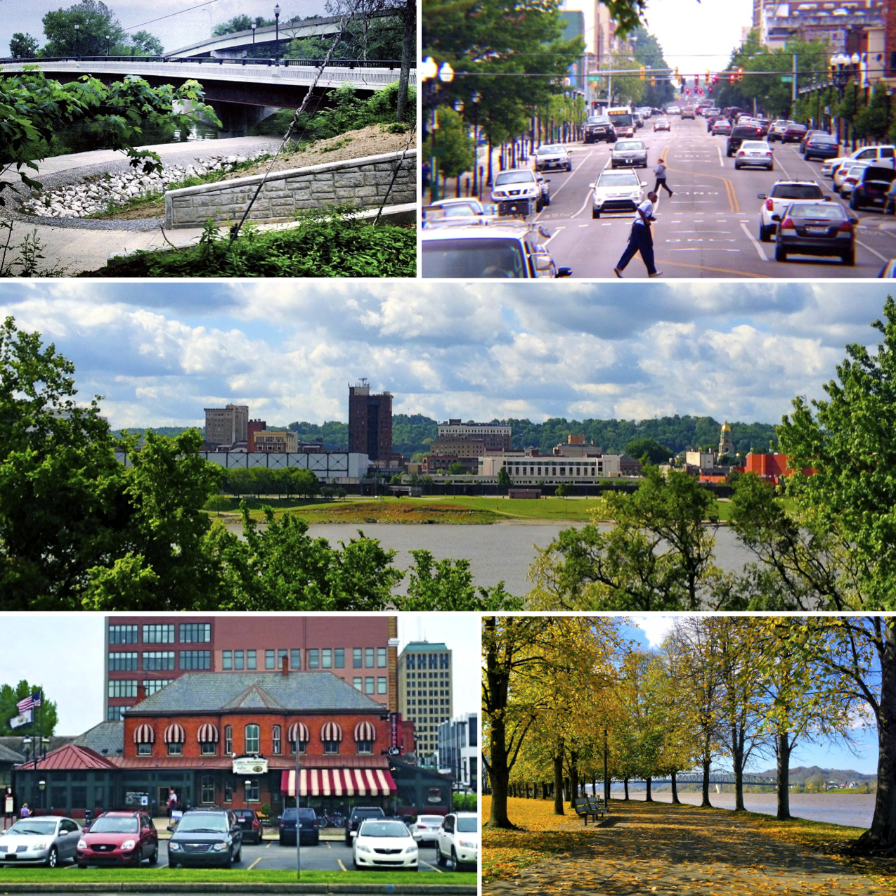 Clockwise: the Paul Ambrose Trail for Health (PATH), the Old Main Corridor, Downtown Huntington as seen from across the Ohio River, Harris Riverfront Park in the Fall, and the Huntington Welcome Center at Heritage Station.